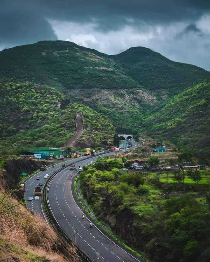 Tunnel in Pune